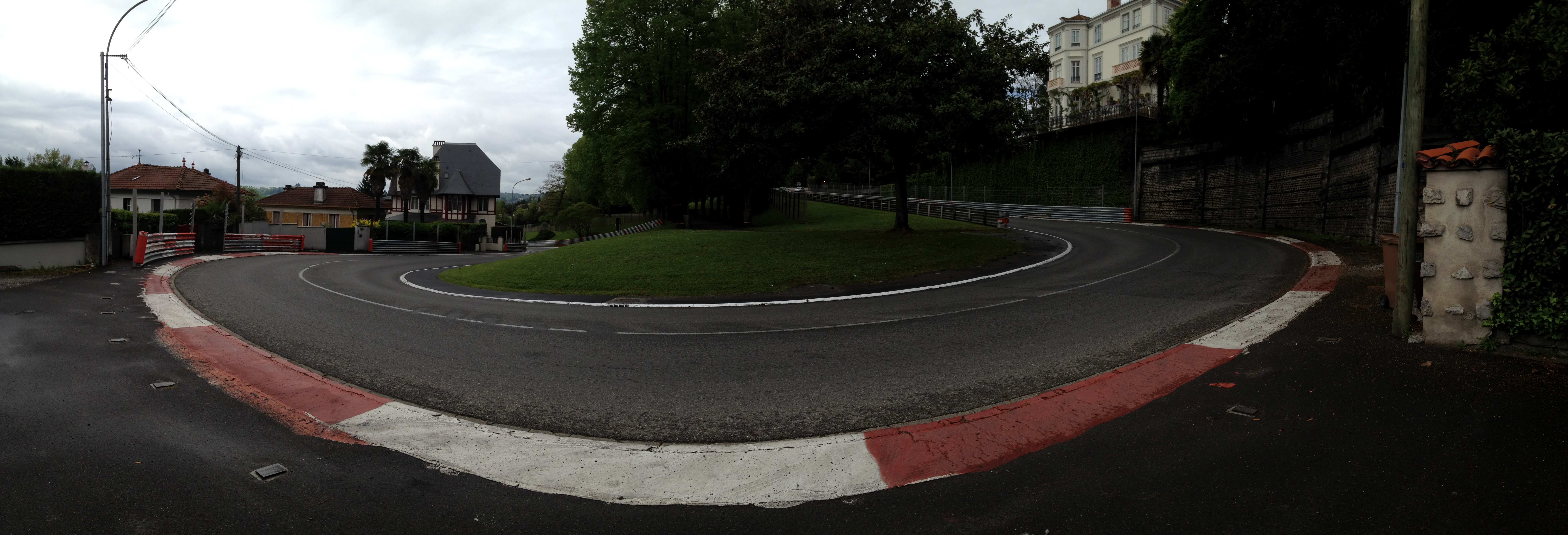 Corner of the Circuit de Pau-Ville, France